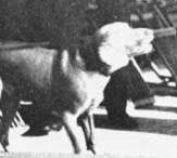 Ege vapuru 1930